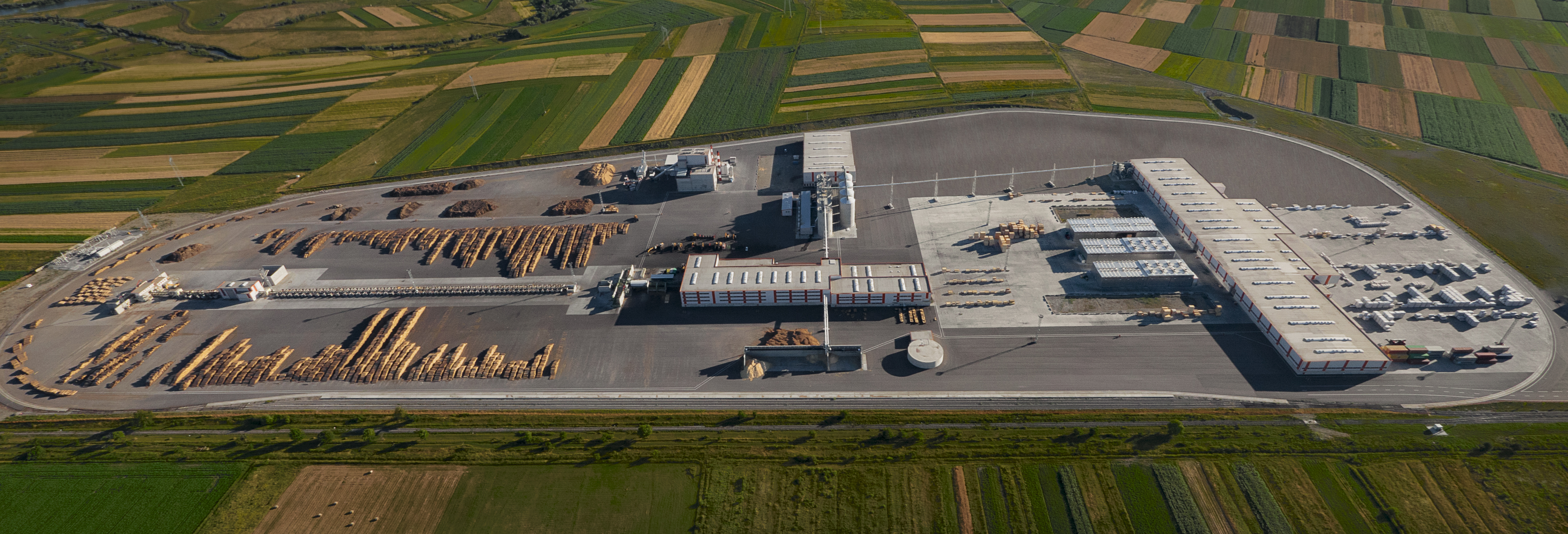 Holzindustrie Schweighofer set up a modern sawmill with further processing on an area of 68 ha in Reci, Romania (Covasna county). It started operations in August 2015. Today, it employs around 650 people.